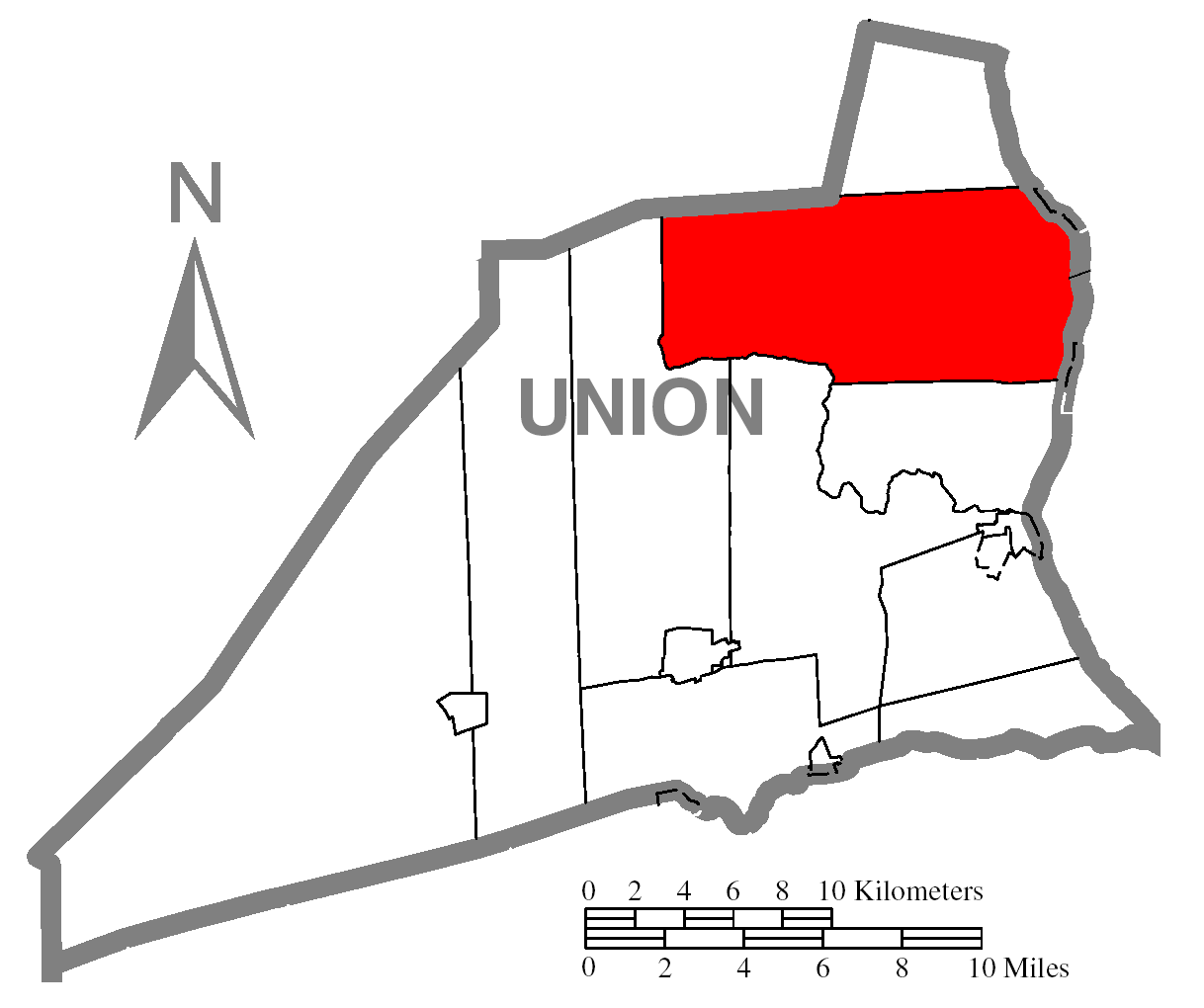 A map of Union County showing White Deer Township, Pennsylvania (alternate) highlighted on the map.